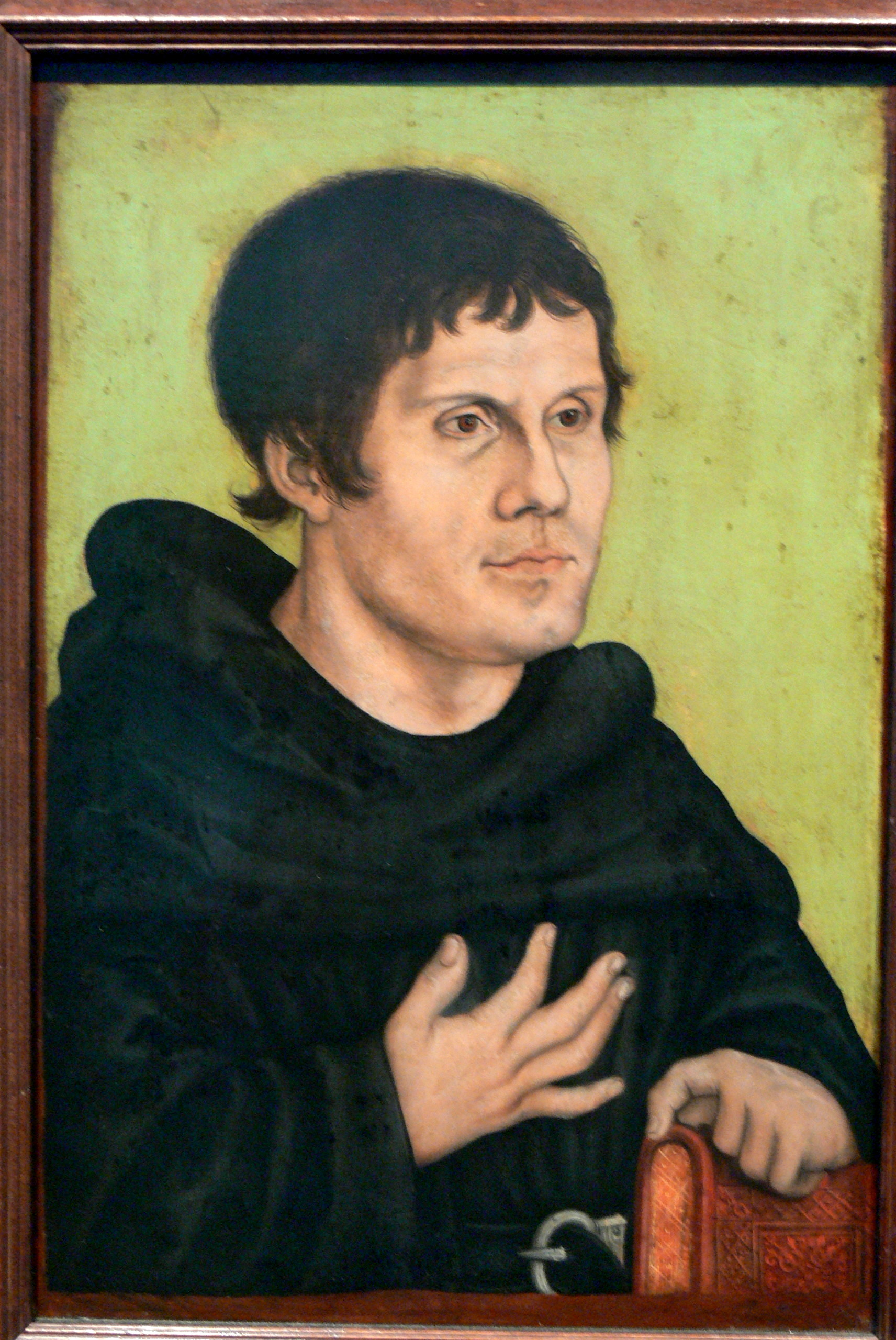 Posthumous portrait ( 1546 ) of Martin Luther as Augustinian monk.